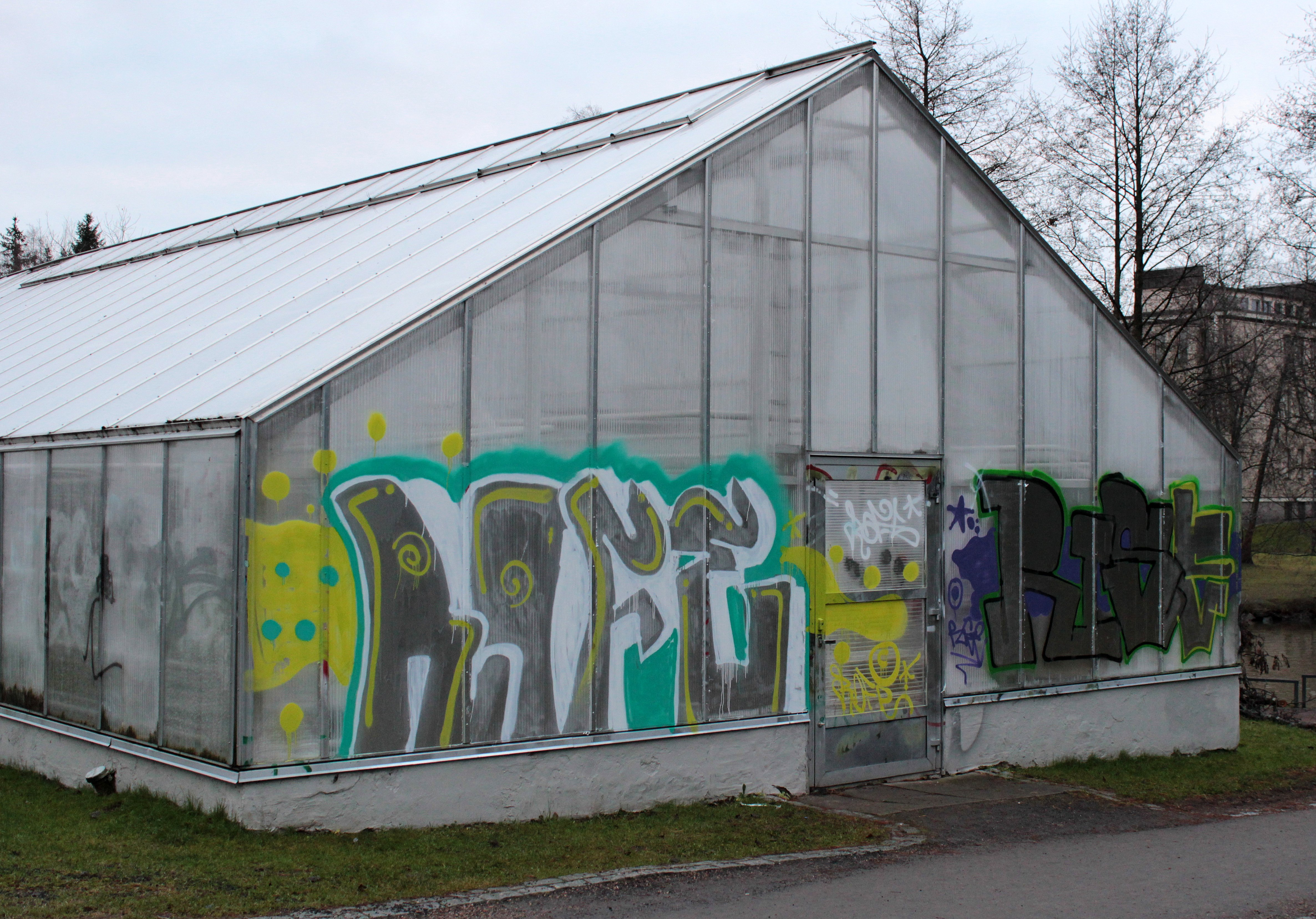 Graffiti filled greenhouse in the Hupisaaret Islands park in Oulu.